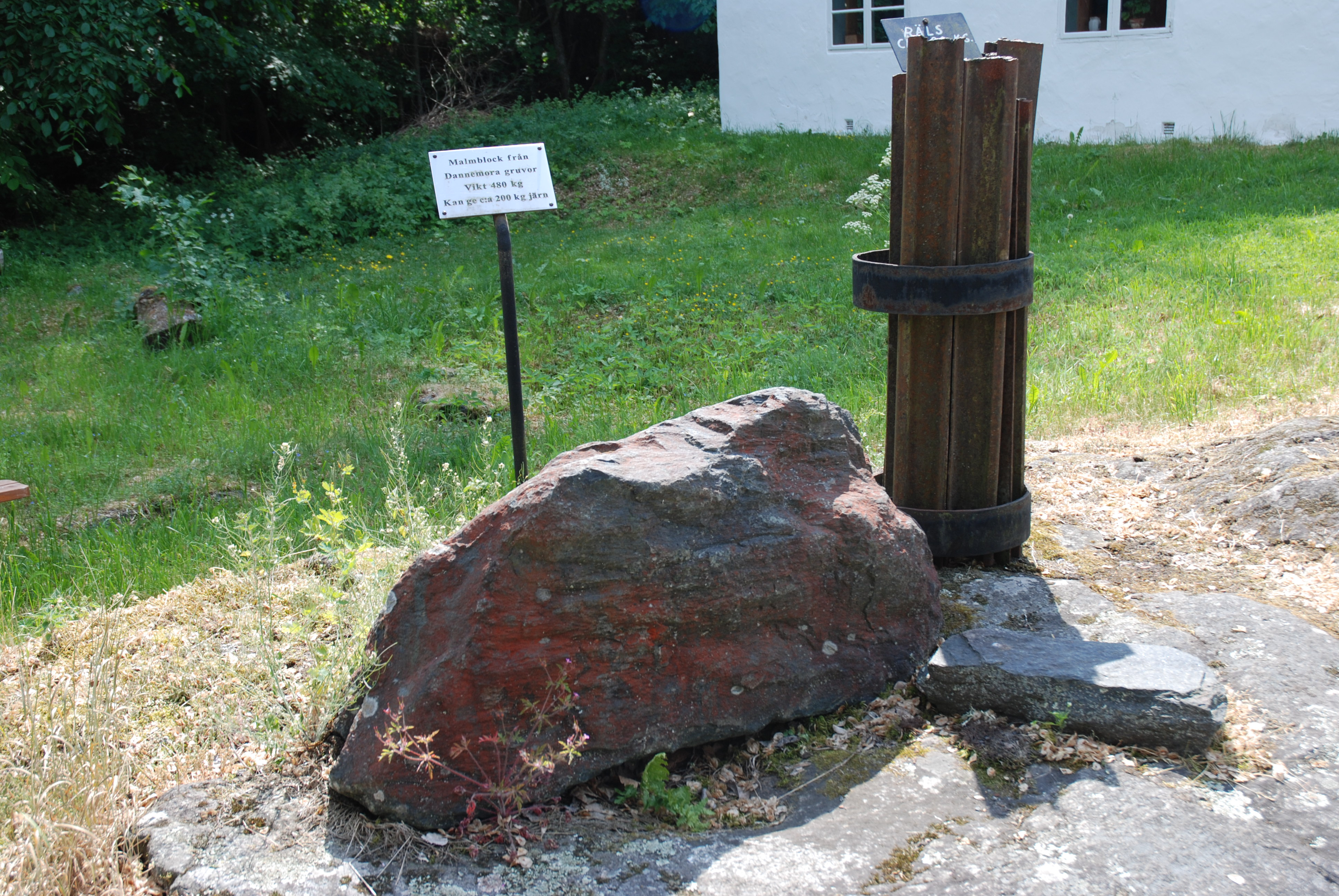 Iron ore from Dannemora mine, Uppland, Sweden, displayed at Edsbro bruk